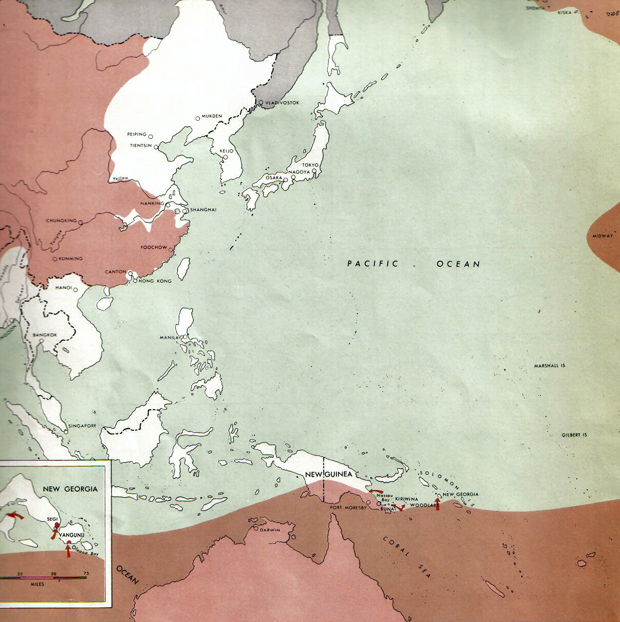 Map of the front against Japan as of 1 July 1943: This map is taken from the source "Atlas of the World Battle Fronts in Semimonthly Phases to August 15th 1945: Supplement to The Biennial report of The Chief of Staff of the United States Army July 1, 1943 to June 30 1945 To the Secretary of War". (See Cover, Forward and Map details)